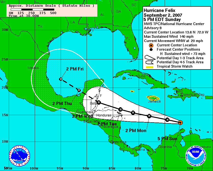 Hurricane Felix on September 02, 2007 (5:00 AST)